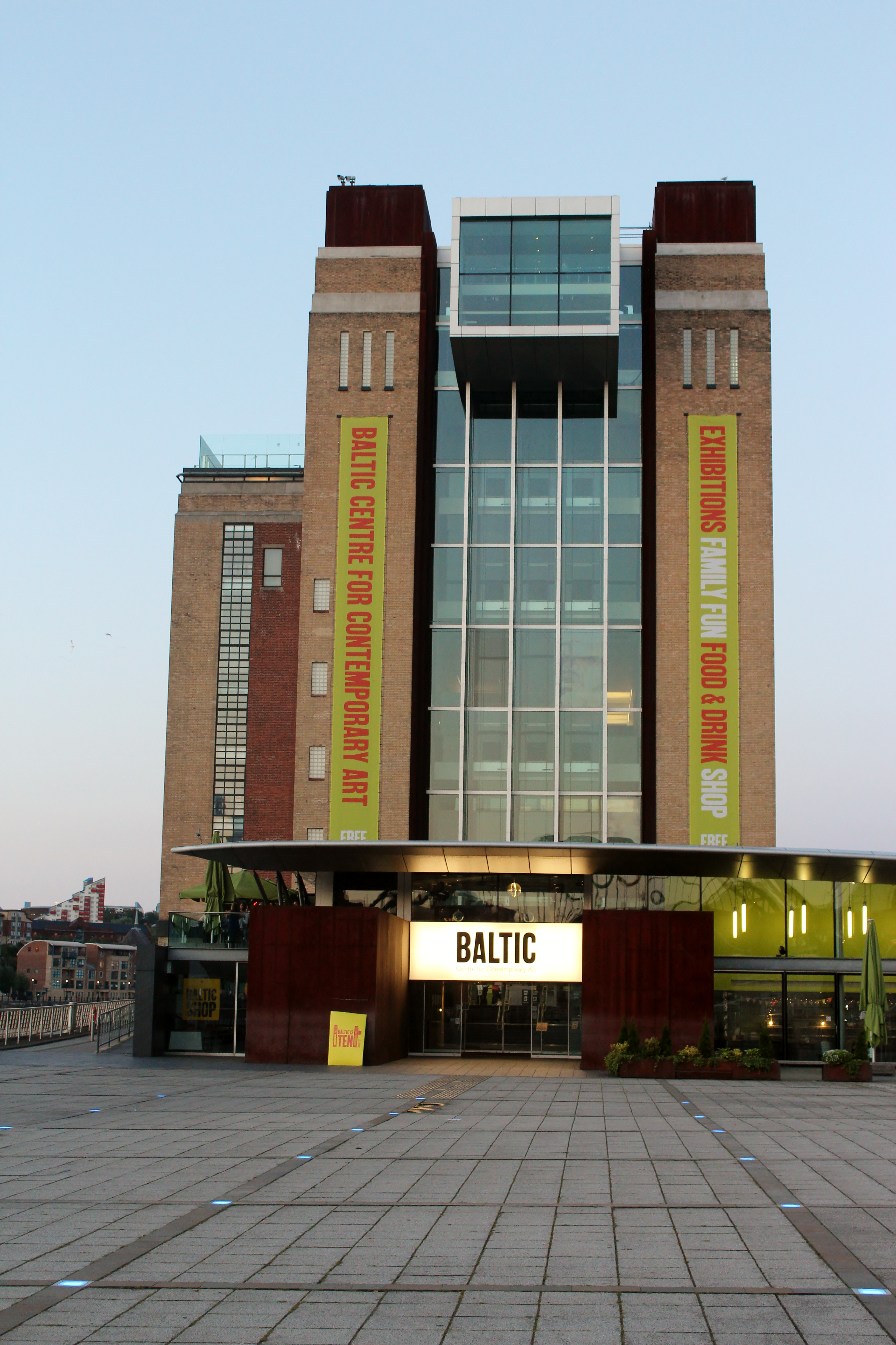 The Baltic Centre for Contemporary Art